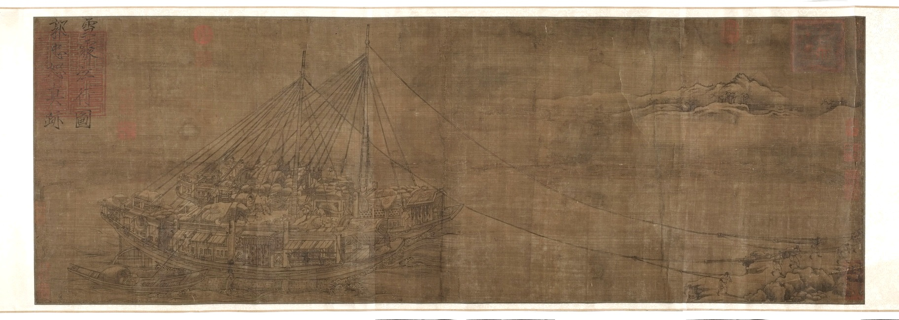 Guo Zhongshu, Towing Boats under Clearing Skies after Snow, creation probably 13th century, 20.75 cm x 142.8 cm, Nelson-Atkins Art Museum